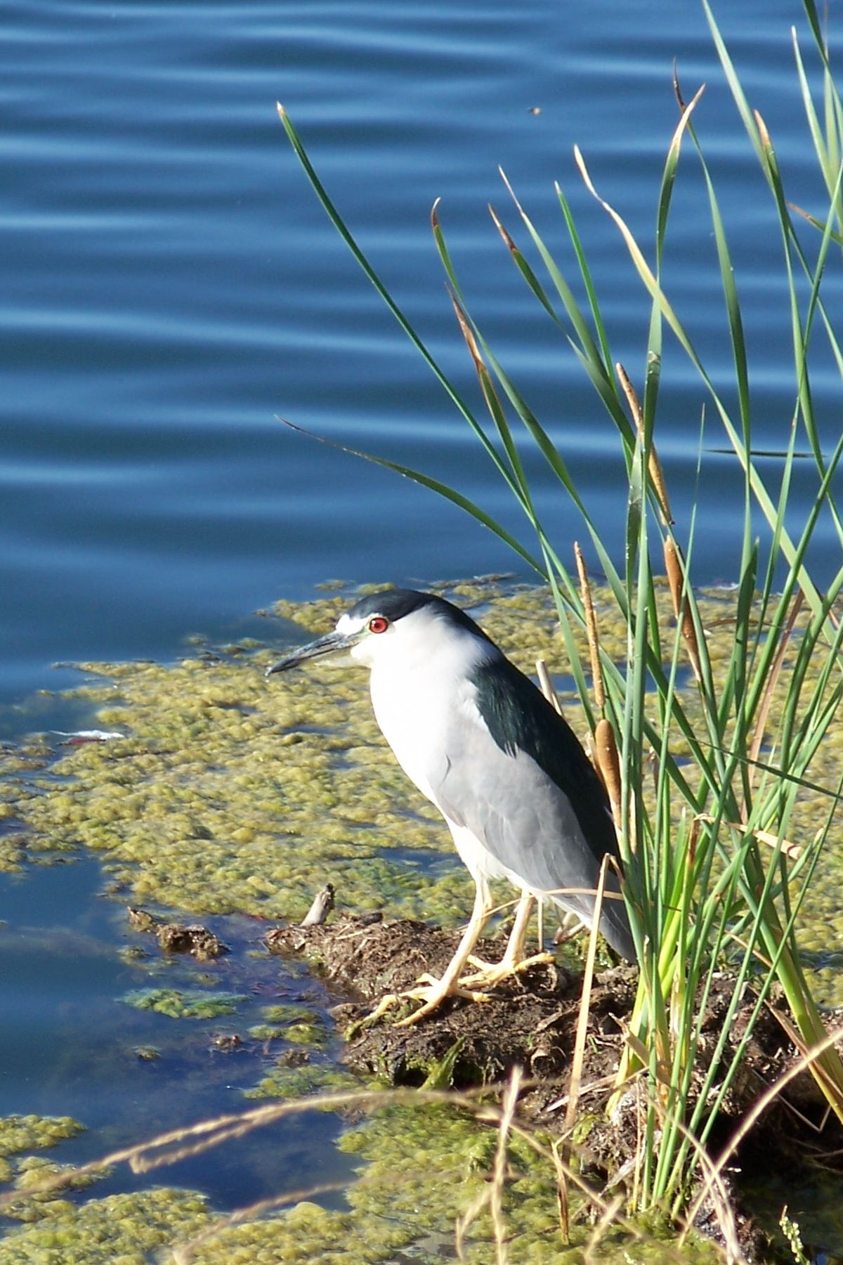 Black-crowned Night Heron